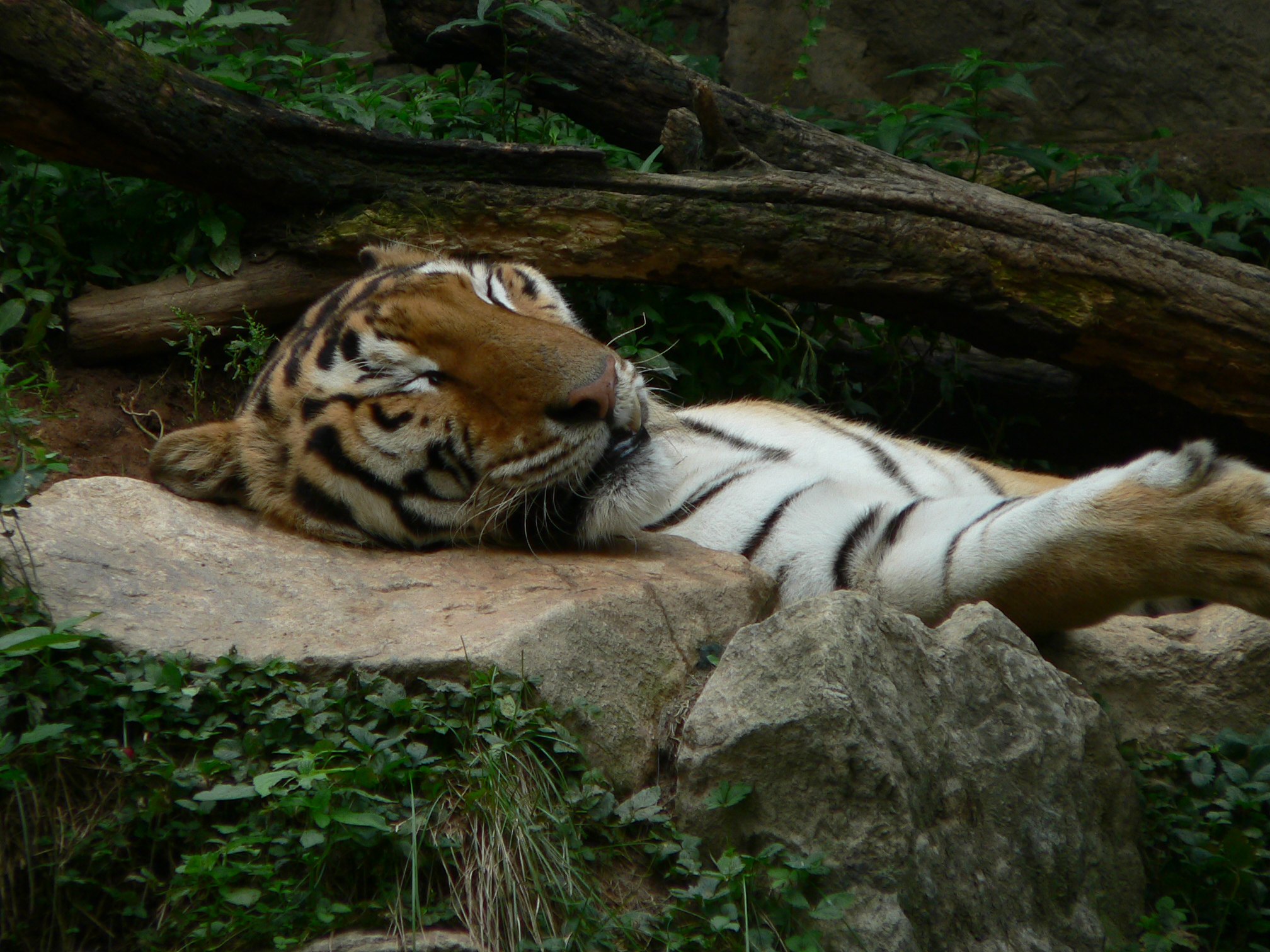 Everland, the biggest theme park of South Korea located in Yongin, Gyeonggi Province.